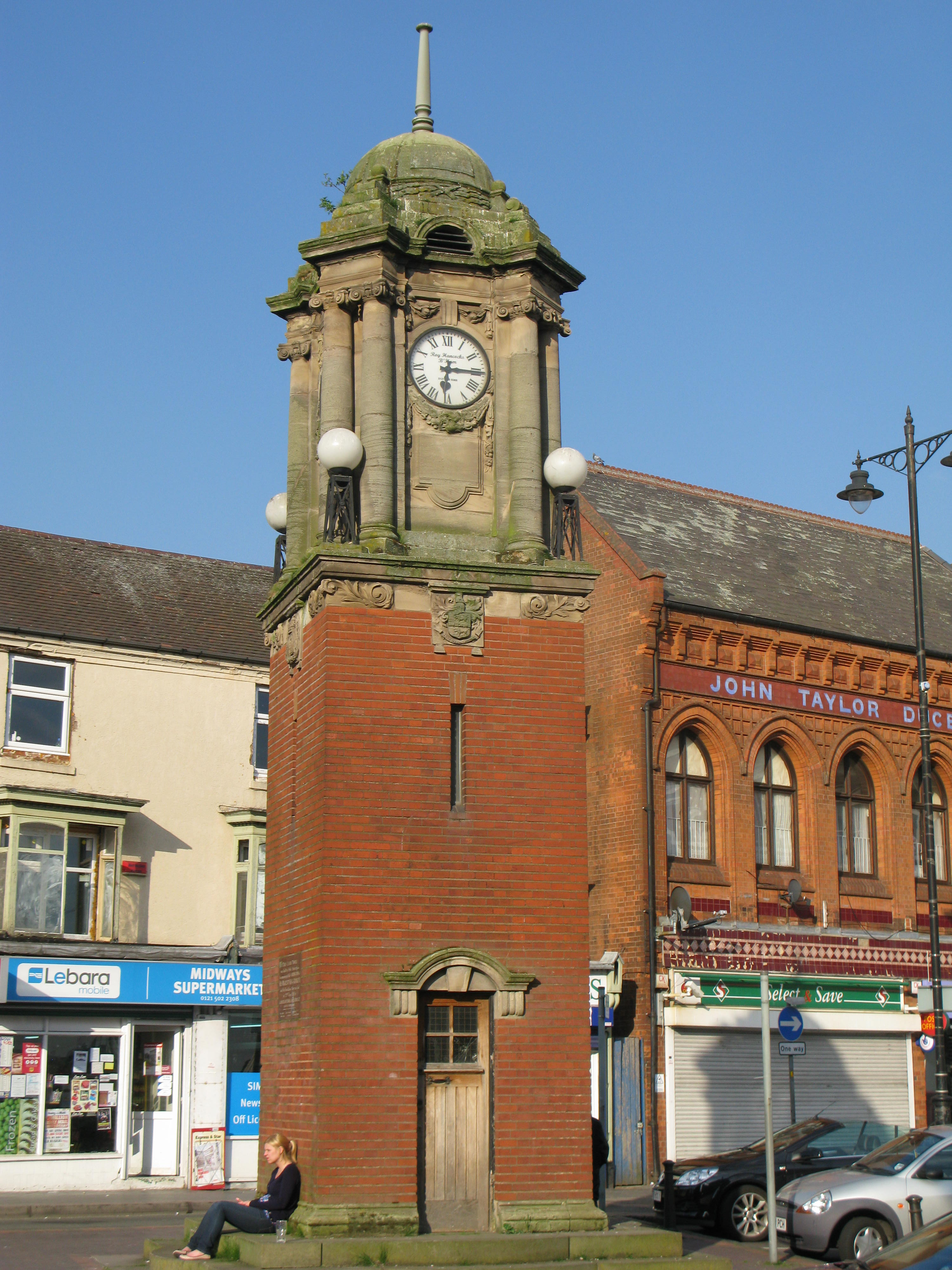 Grade II